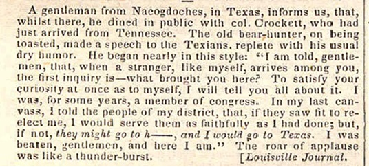 1836 newspaper article relating the now famous quote from a story told by David Crockett in Nacogdoches, Texas shortly before his death at The Alamo. Referring to the voters of his District in his last campaign for Congress, Crockett said that if they failed to re-elect him that "they might go to hell, and I would go to Texas." This article is from the April 9, 1836 edition of the Niles' Weekly Register, page 99.